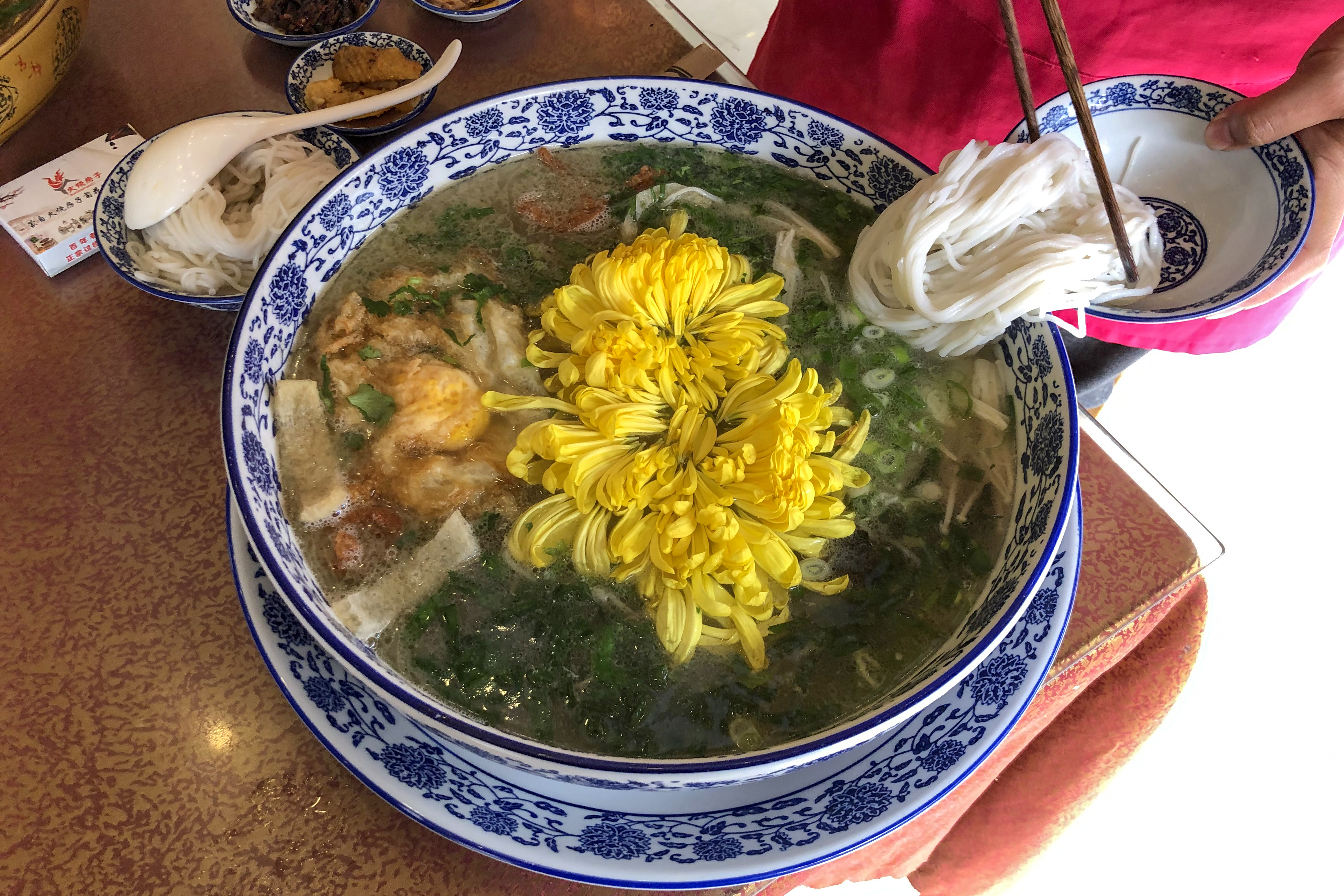 Here is the scene of "crossing the bridge".